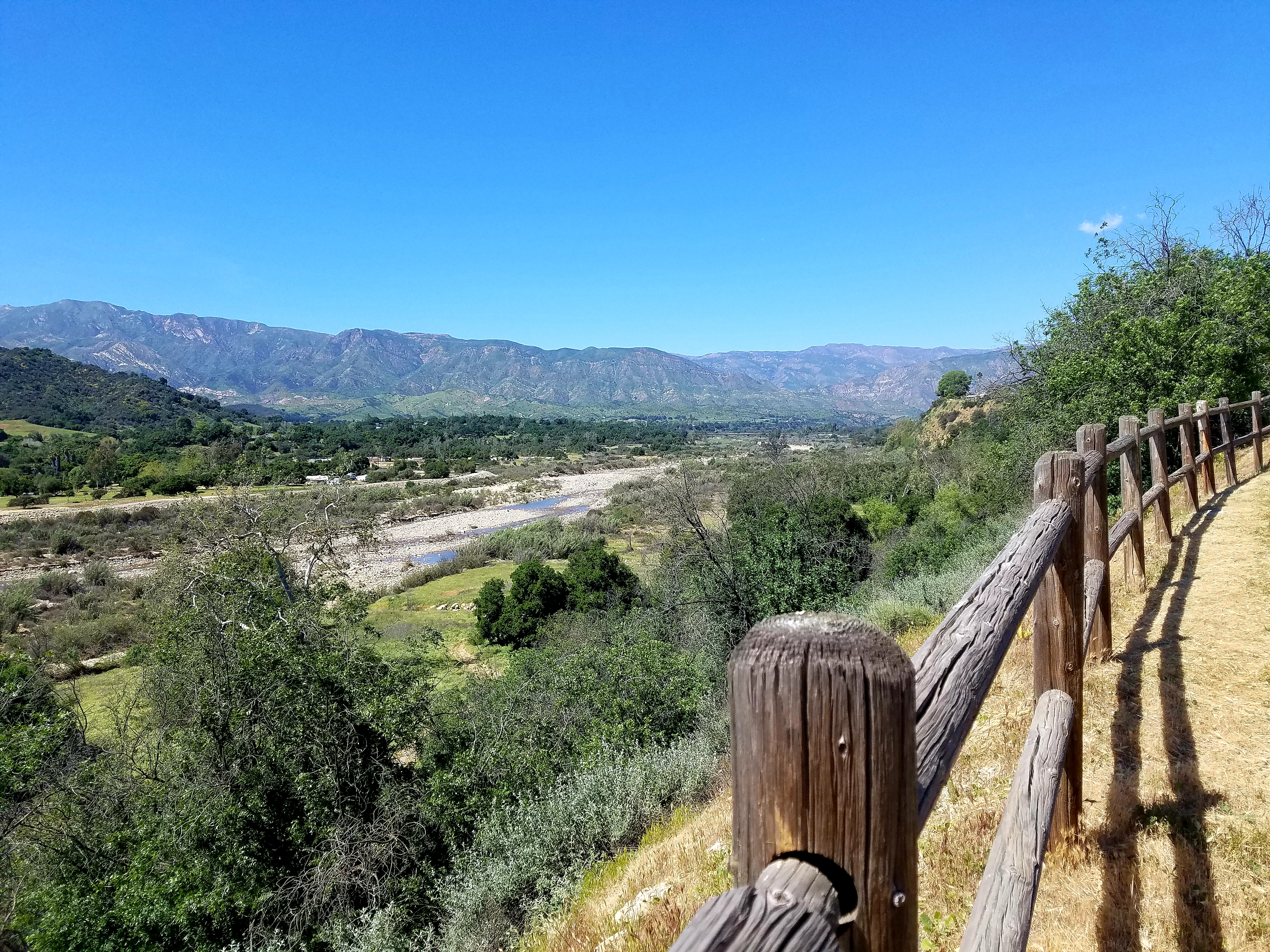 This image is taken from the Ojai Valley Trail portion of the Ventura River Parkway Trail looking northwest from the fill across Devils Gulch north of Oak View, California.